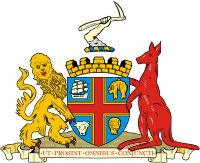 Coat of arms of the city of Adelaide, in Australia